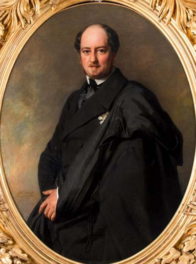 17e prince de Chimay